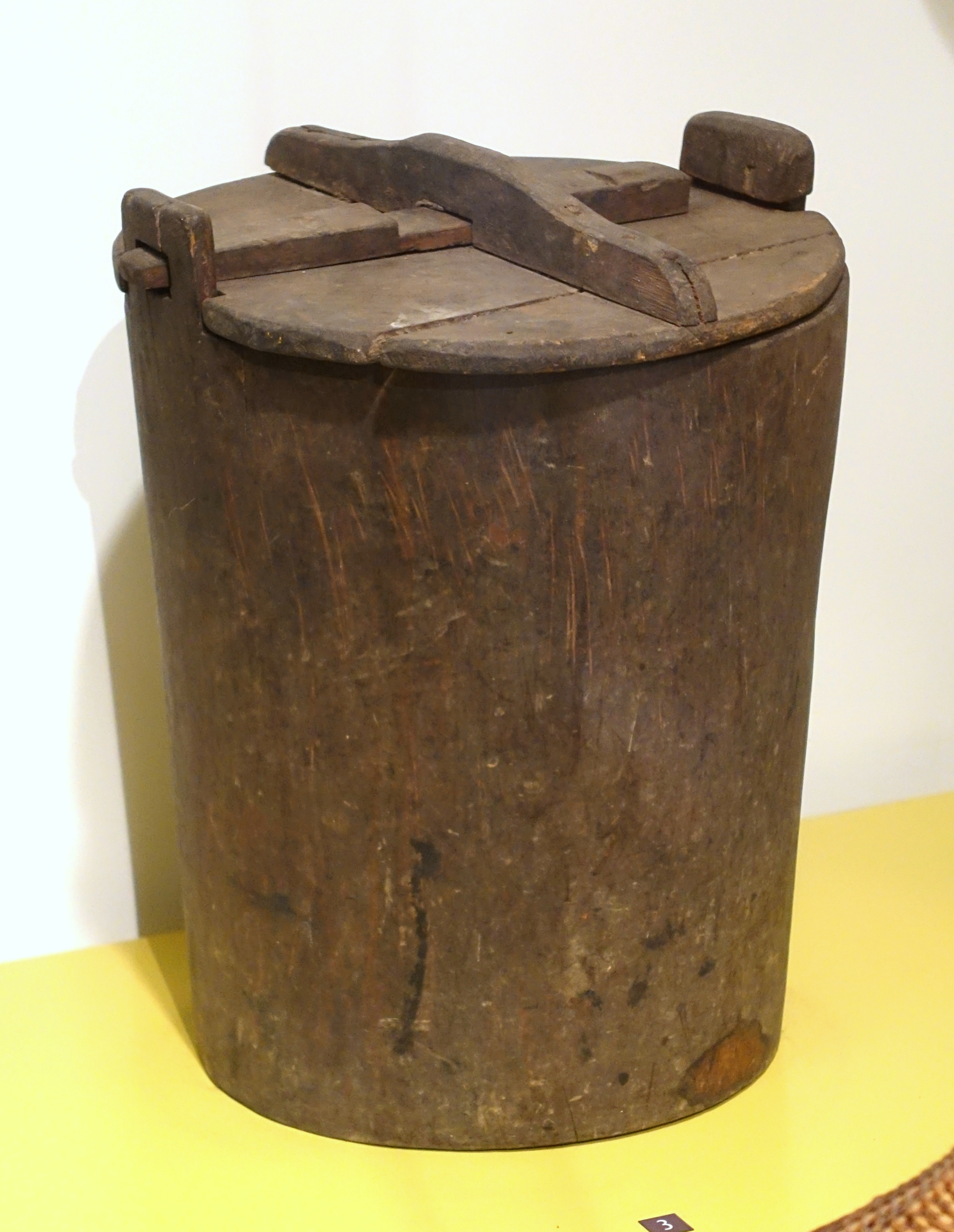 Exhibit in the Vietnamese Women's Museum, Hanoi, Vietnam.